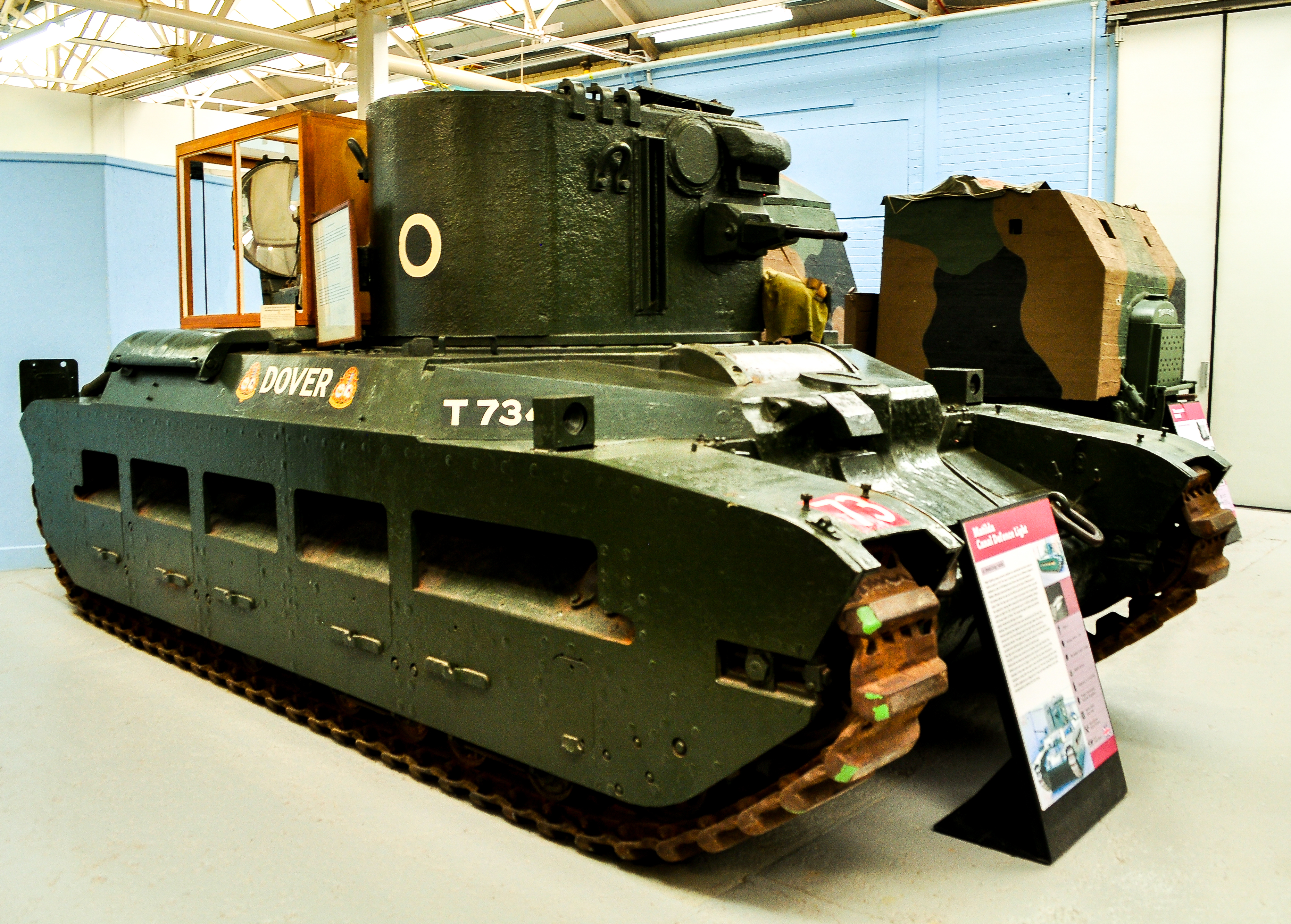 Canal Defence Light at the Tank Museum, Bovington, with search light at the rear of the turrent